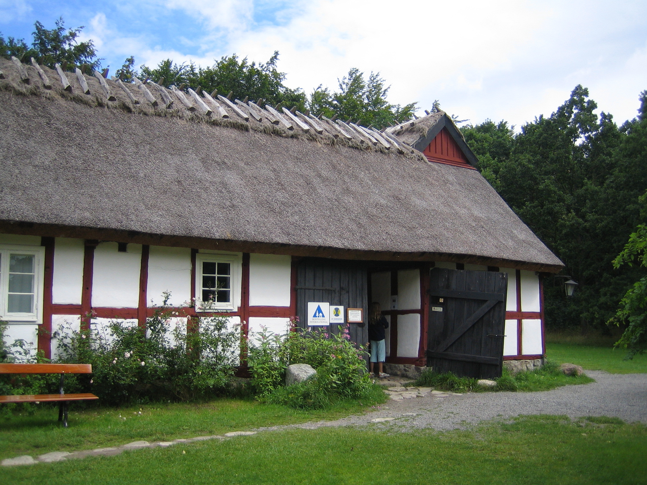 Skepparpsgården, Youth hostel at Österlen, Skåne, Sweden